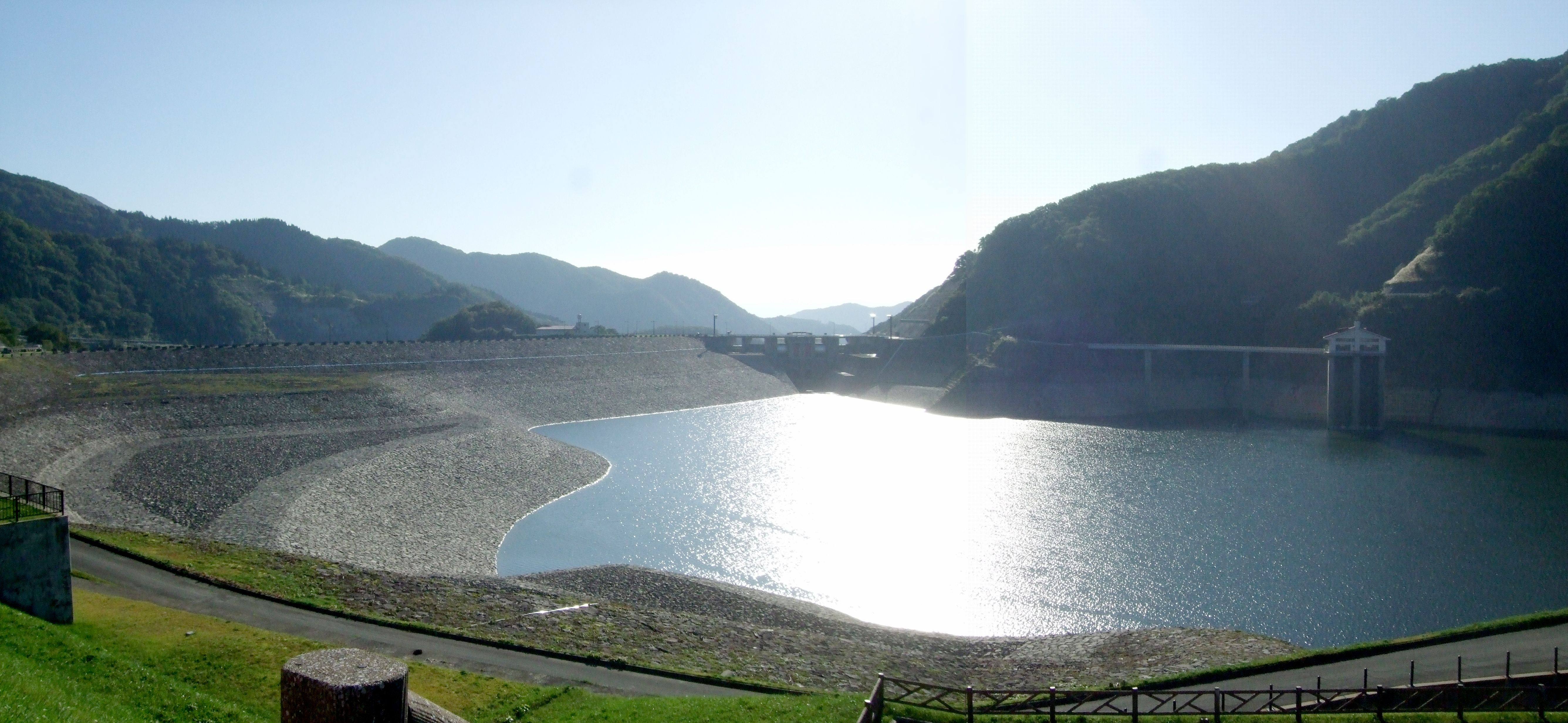 Sagae Dam in Yamagata, Japan.